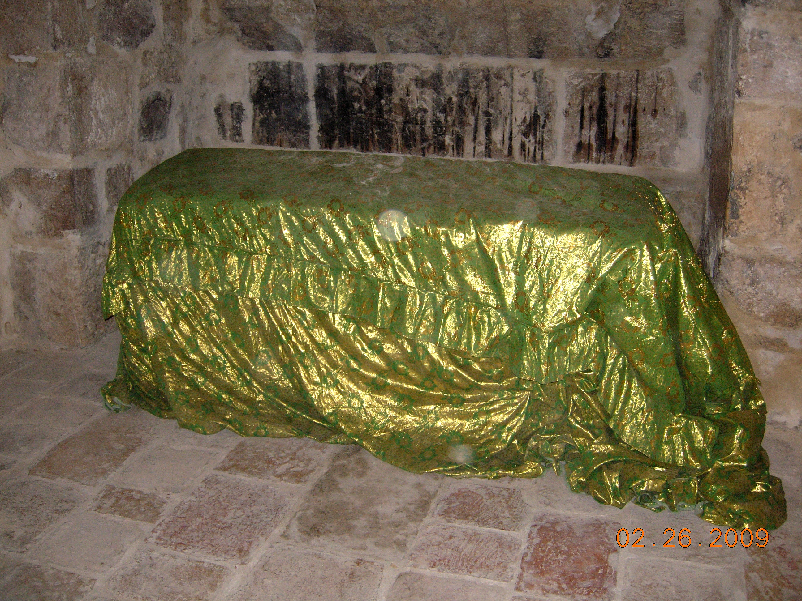 Hulda (Pelagia) Grave on the Mount of Olives